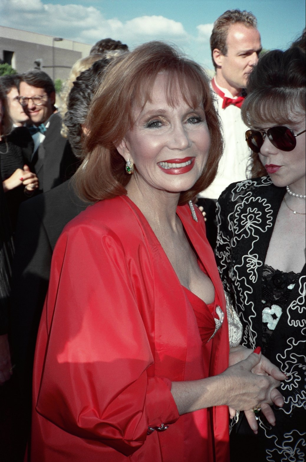 1989 Emmy Awards NOTE: Permission granted to copy, publish, broadcast or post any of my photos, but please credit "photo by Alan Light" if you can. Thanks. Scanned from the original 35MM film negative.